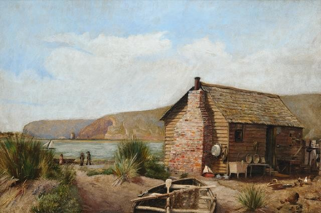 Edith Munnings guess 1920